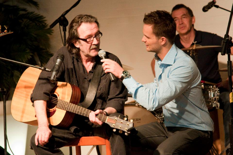 Kaz Lux te gast in talkshow